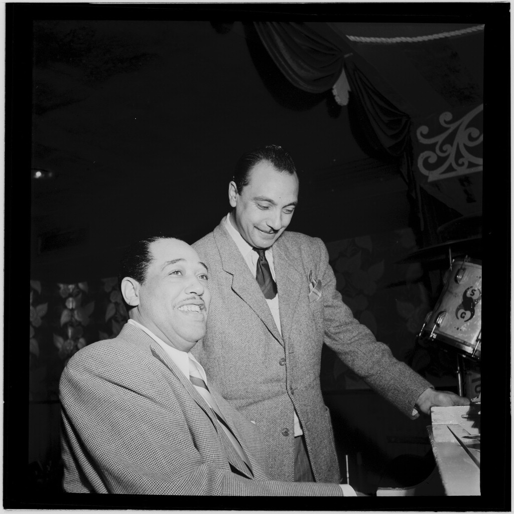 Django Reinhardt and Duke Ellington, Aquarium, New York, N.Y., ca. November 1946 (Photograph by William P. Gottlieb)